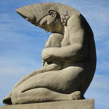 A picture of the sculpture of the goddess Chía (meaning moon in the Chibcha language), which stands in the central plaza of the town called Chía in Colombia, near its capital Bogotá.